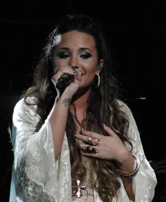 Demi Lovato performing "Skyscraper" at Club Nokia in Los Angeles